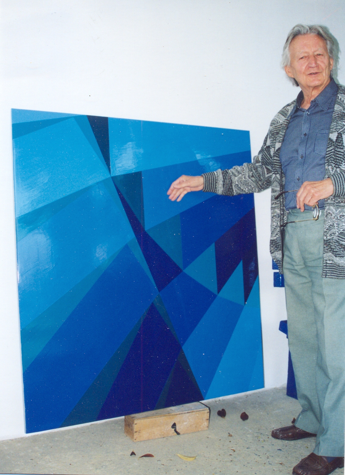 Vjenceslav Richter beside his composition M 4, 30 May 2000.